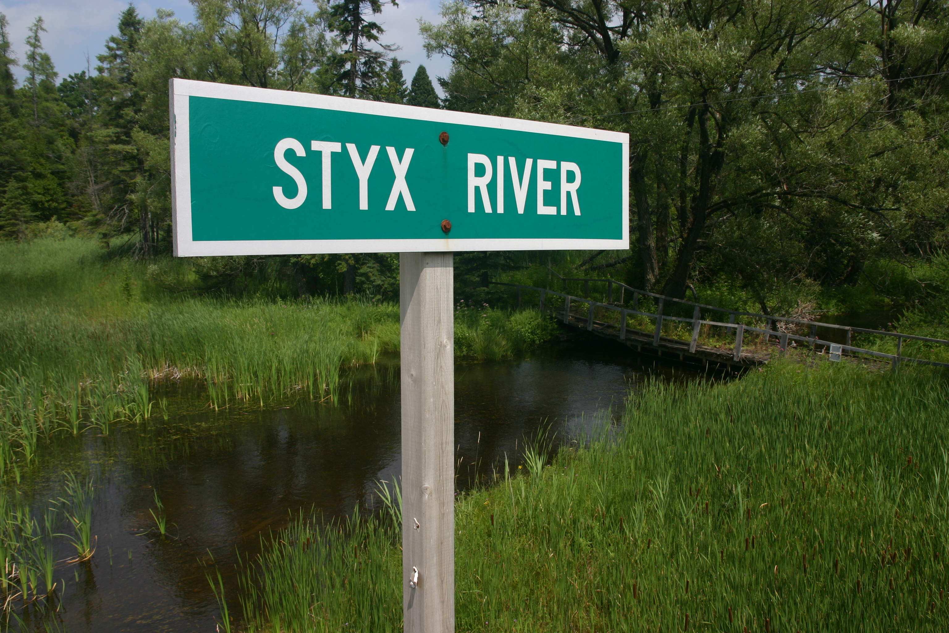 The river Styx, crossing at highway 6 north, on the way to Owen Sound, Ontario, Canada; Summer 2009. A view of the river's namesign, & a small, decaying footbridge, off to the side of the highway. Part of a series